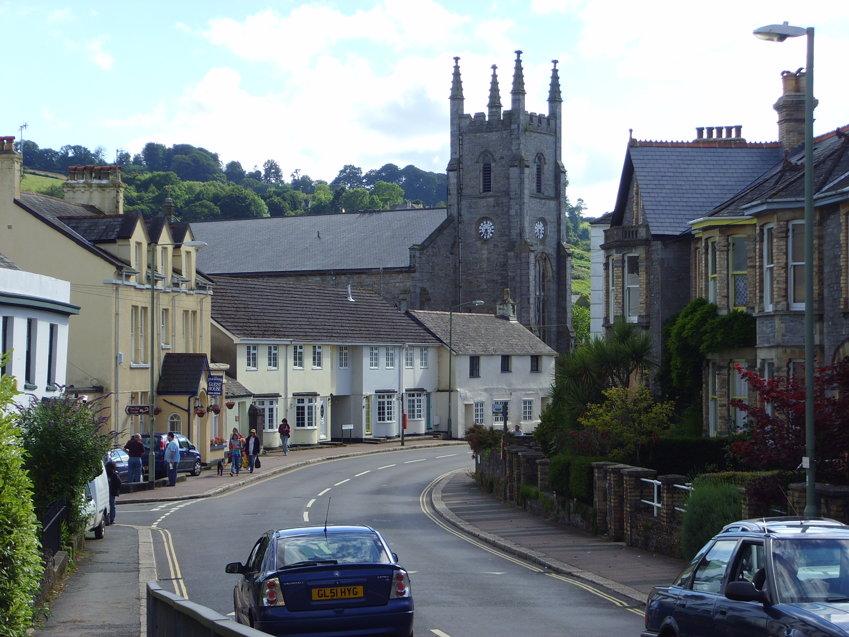 Bridgetown, Totnes, Devon, England, with the tower of St John the Evangelist parish church